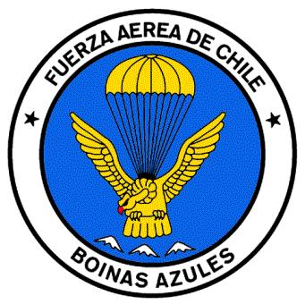 "BOINAS AZULES" PARACHUTE TEAM EMBLEM